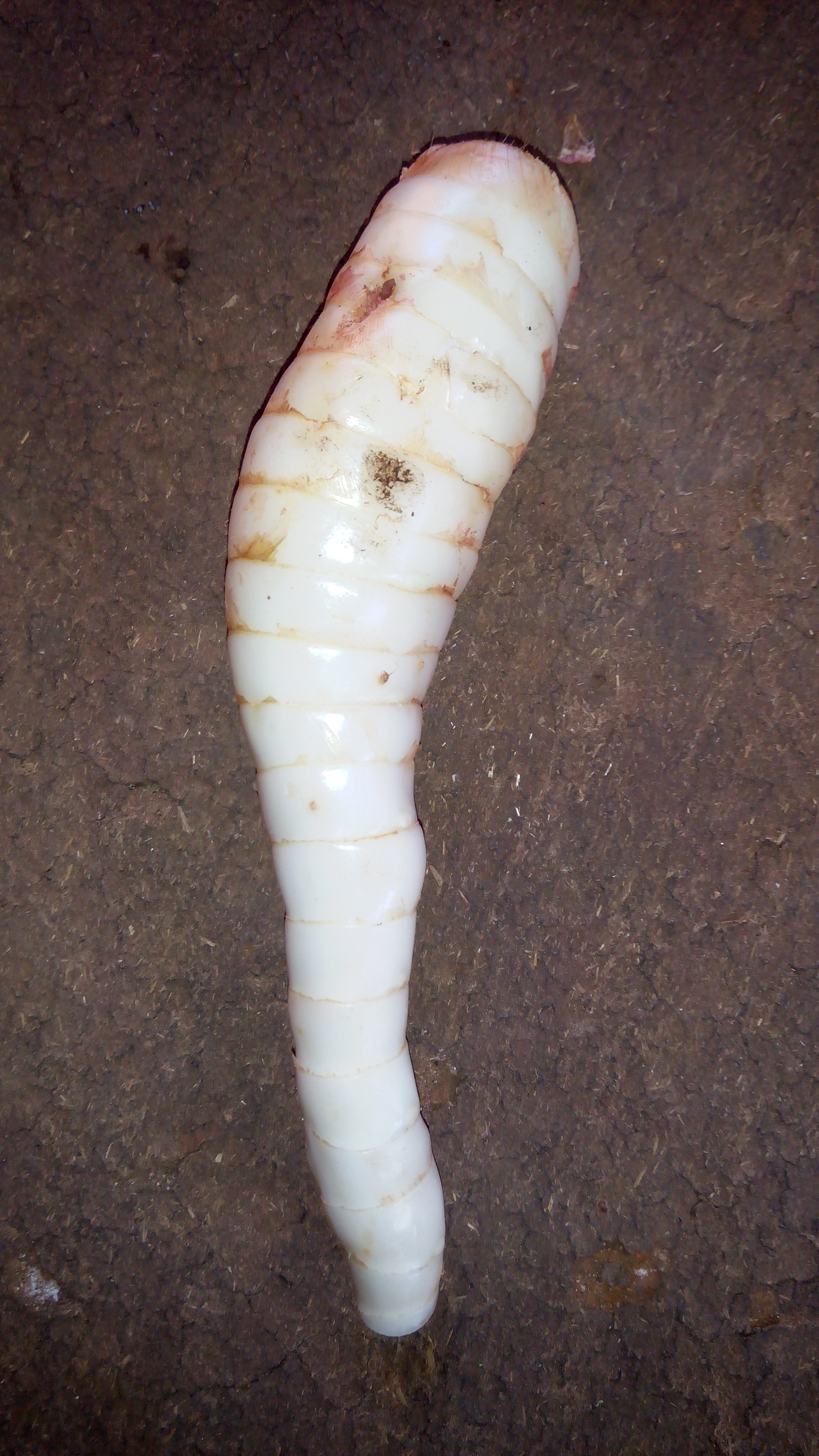 Maranta arundinacea